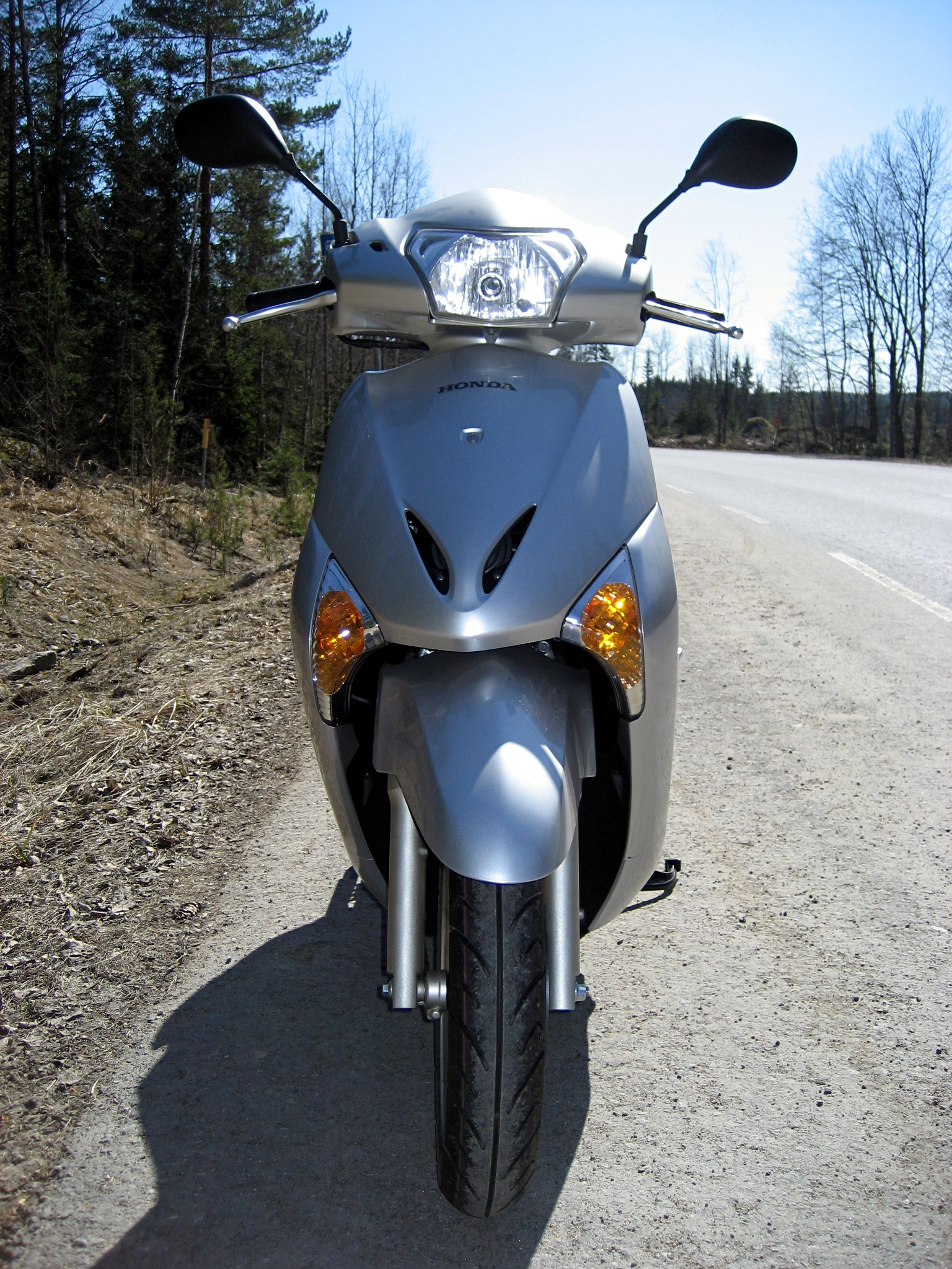 Honda's entry level motor scooter SCV 110 Lead, date of manufacture Feb 2008, China. Single cylinder liquid cooled four stroke, 108 cc. Automatic transmission with fuel injection.